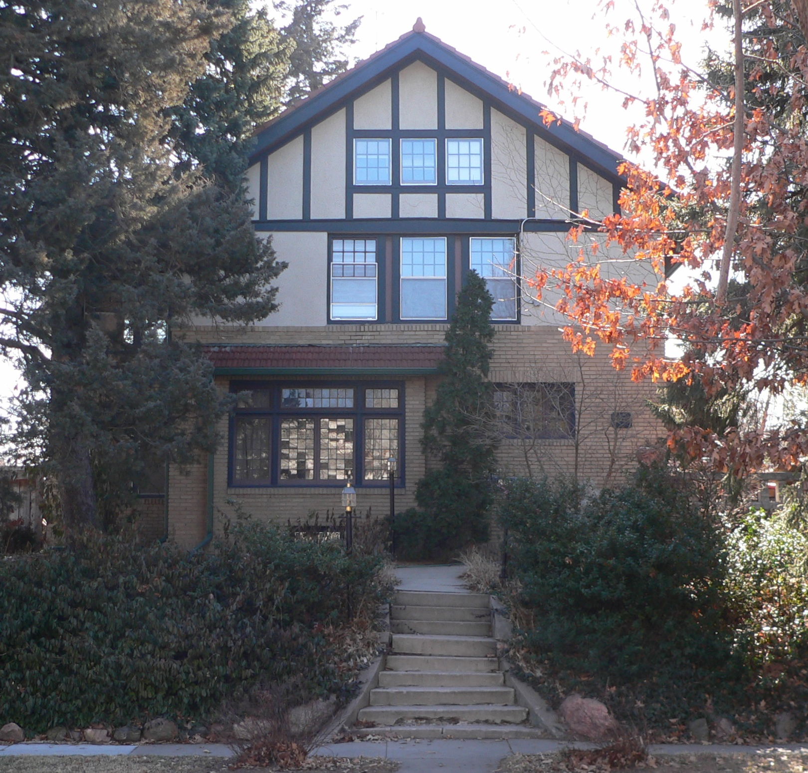 Frank E. and Emma A. Gillen house, located at 2245 A Street in Lincoln, Nebraska; seen from the north, across A Street.